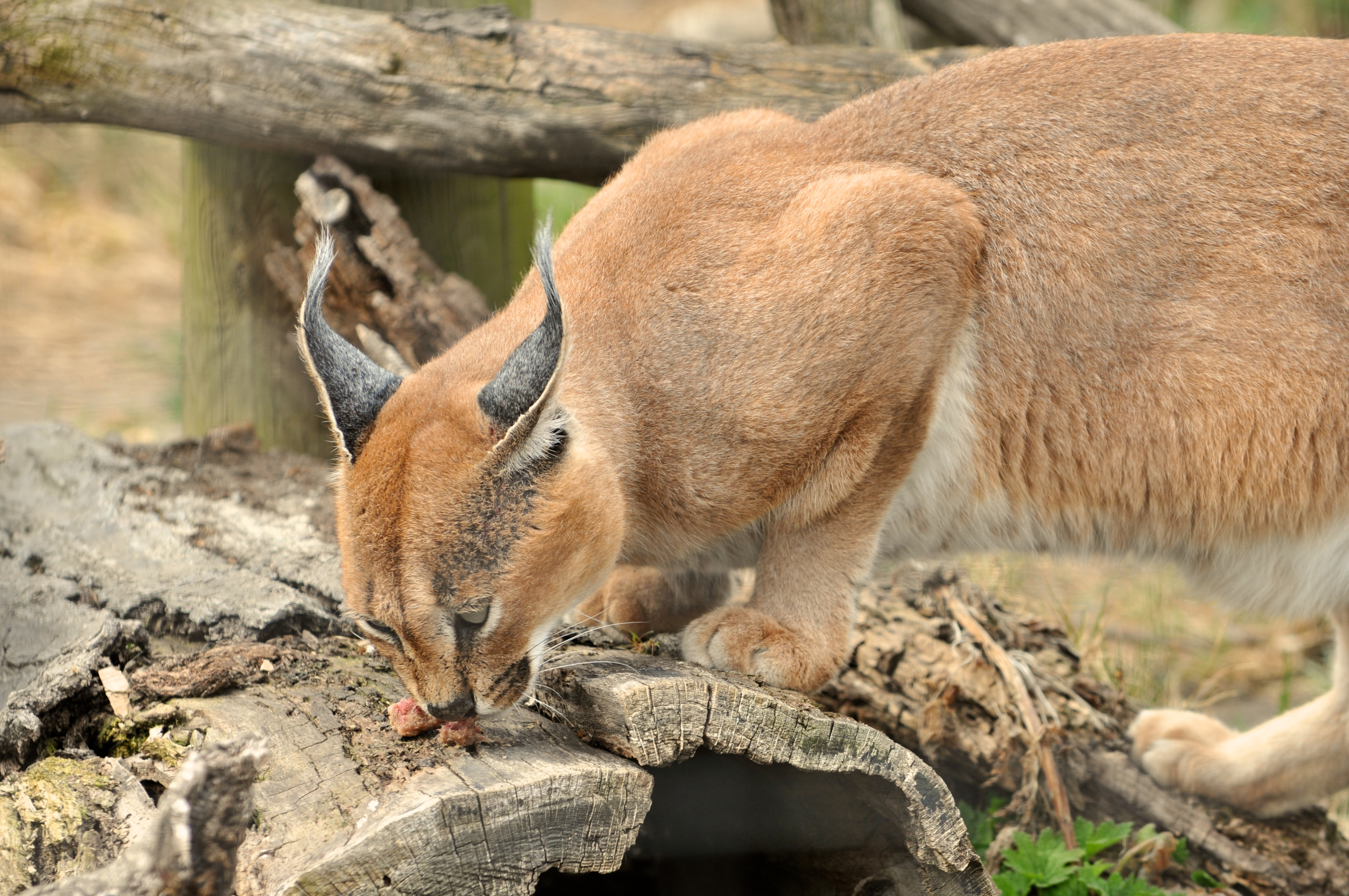 A Caracal at Toronto Zoo, Ontario, Canada.